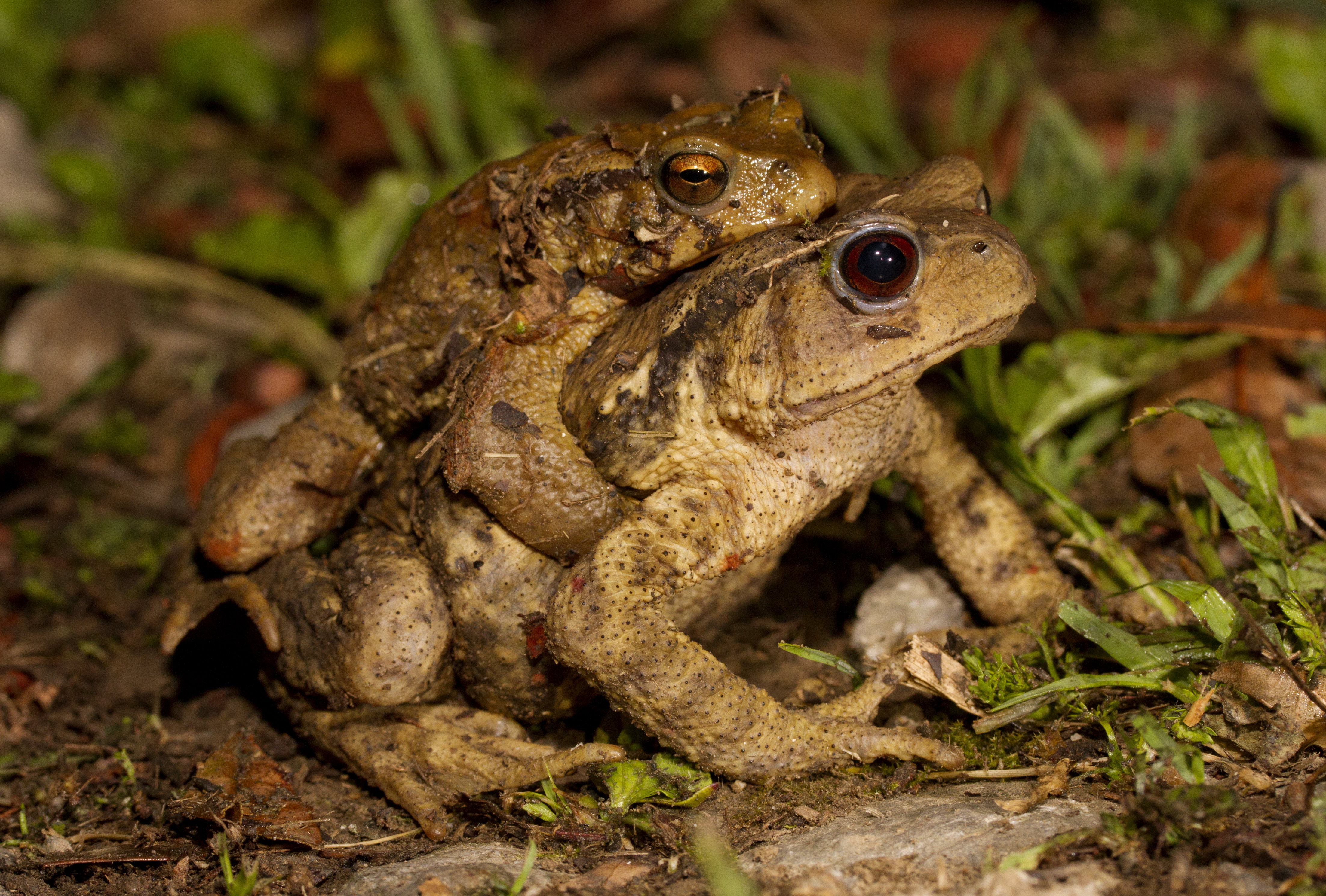 Bankor toads in amplexus (Bufo bankorensis) in Taipei, Taiwan.